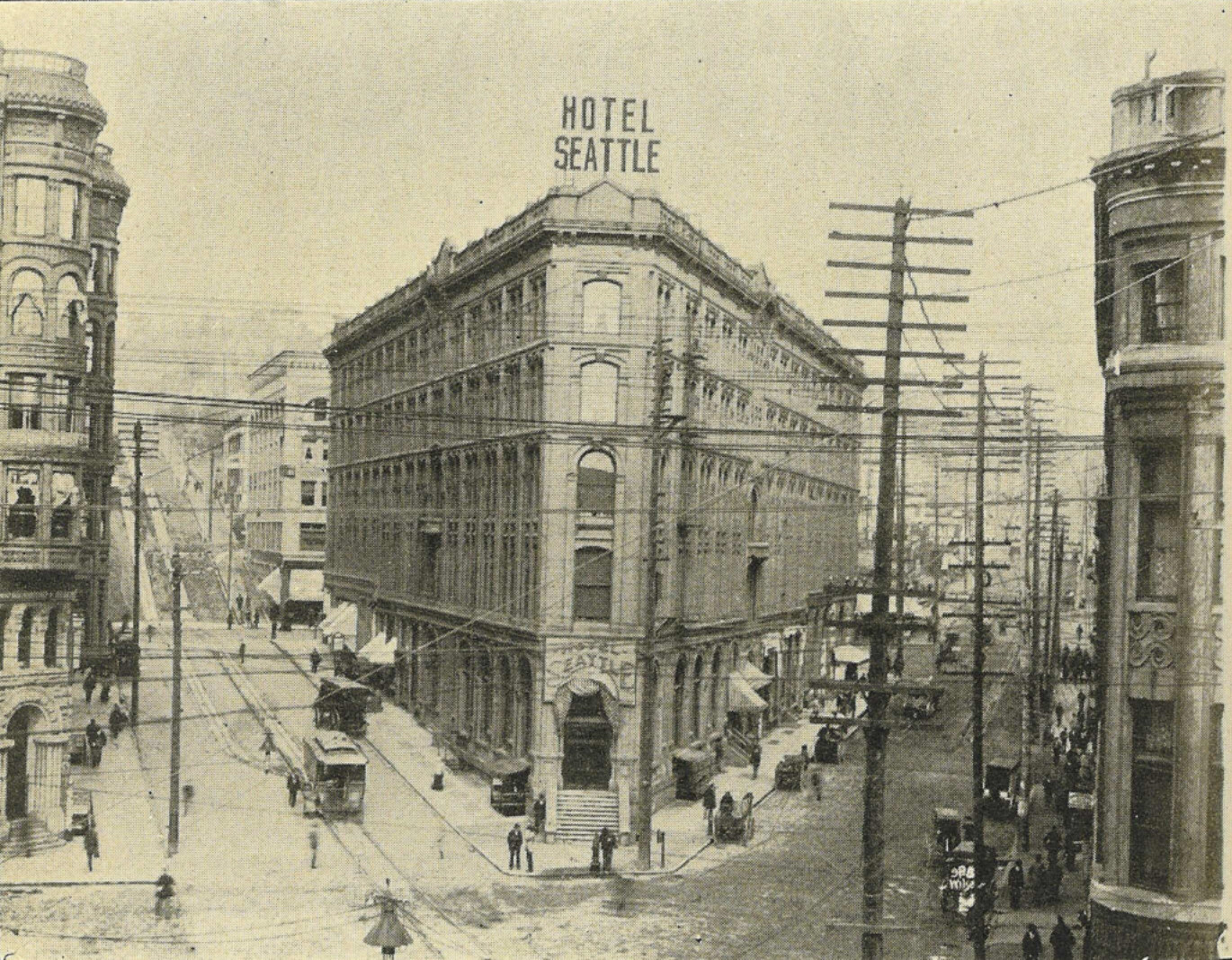 "Hotel Seattle, junction of Yesler Way and James St. Known as Occidental Block, erected and owned by John Collins", from brochure Seattle and the Orient (1900). This 200-room hotel in the heart of the Pioneer Square neighborhood was built in 1890 right after the Great Seattle Fire as the Occidental Hotel, but soon renamed as the Hotel Seattle. By 1914, it had been repurposed as an office building. It was demolished in 1961, replaced by the "sinking ship parking lot". See Paul Dorpat, Occidental Hotel: The Rise, Fall, Rise, and Fall of Pioneer Square's Historic Hotel -- A Slide Show Photo Essay on HistoryLink. Frame 5 of that sequence is a cropped version of this same image. Other buildings partly visible in this photo are the Pioneer Building on the left (still standing as of 2007), the Olympic Block on the right (partly collapsed 1972, demolished 1974) and (behind the Hotel Seattle on the left, at Second and James) the Collins Block (still standing as of 2007).